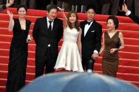 Reżyser i obsada filmu W innym kraju na festiwalu w Cannes w roku 2012